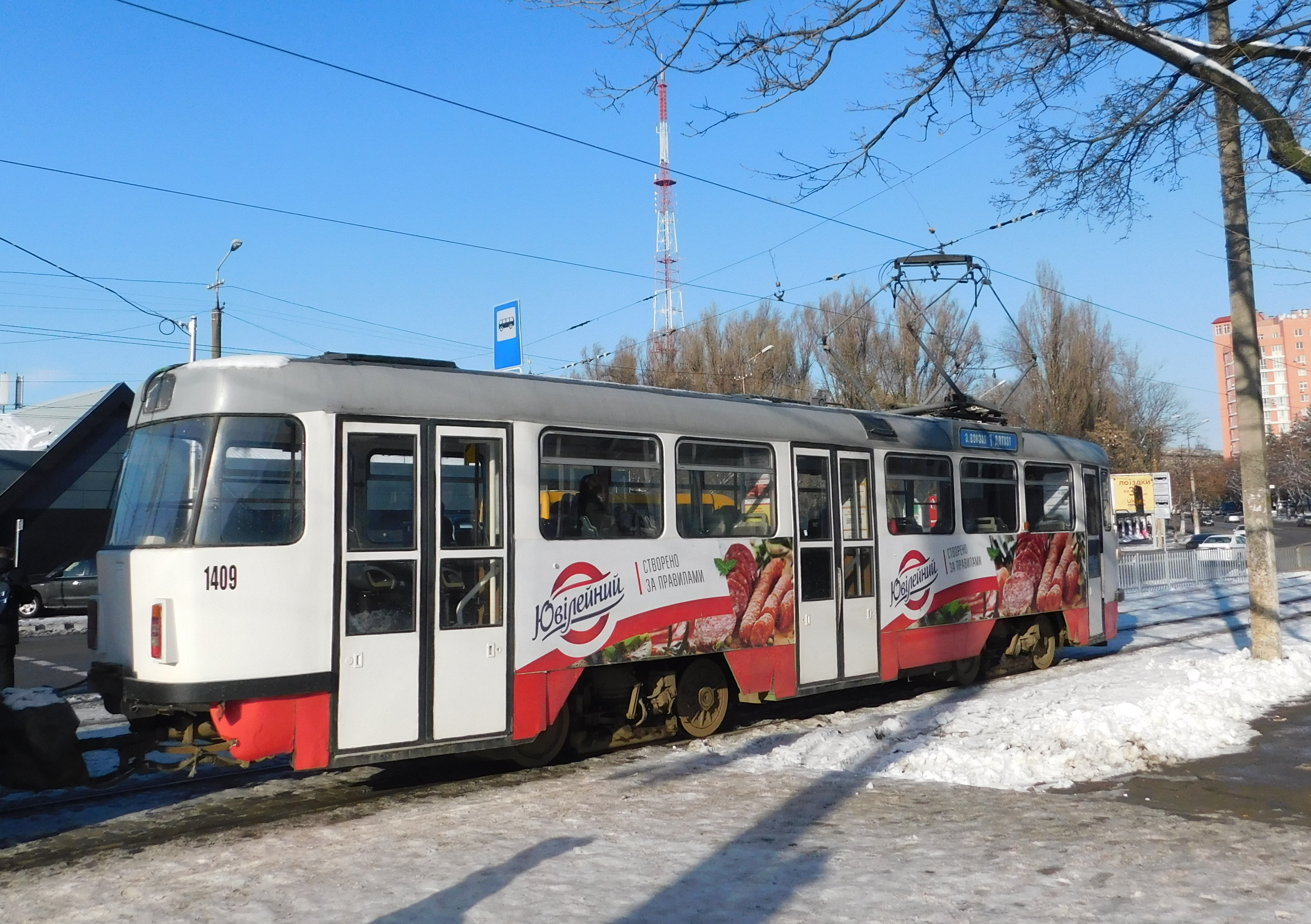 Back of Tatra T3DC1 numbered 1409, Dnipro